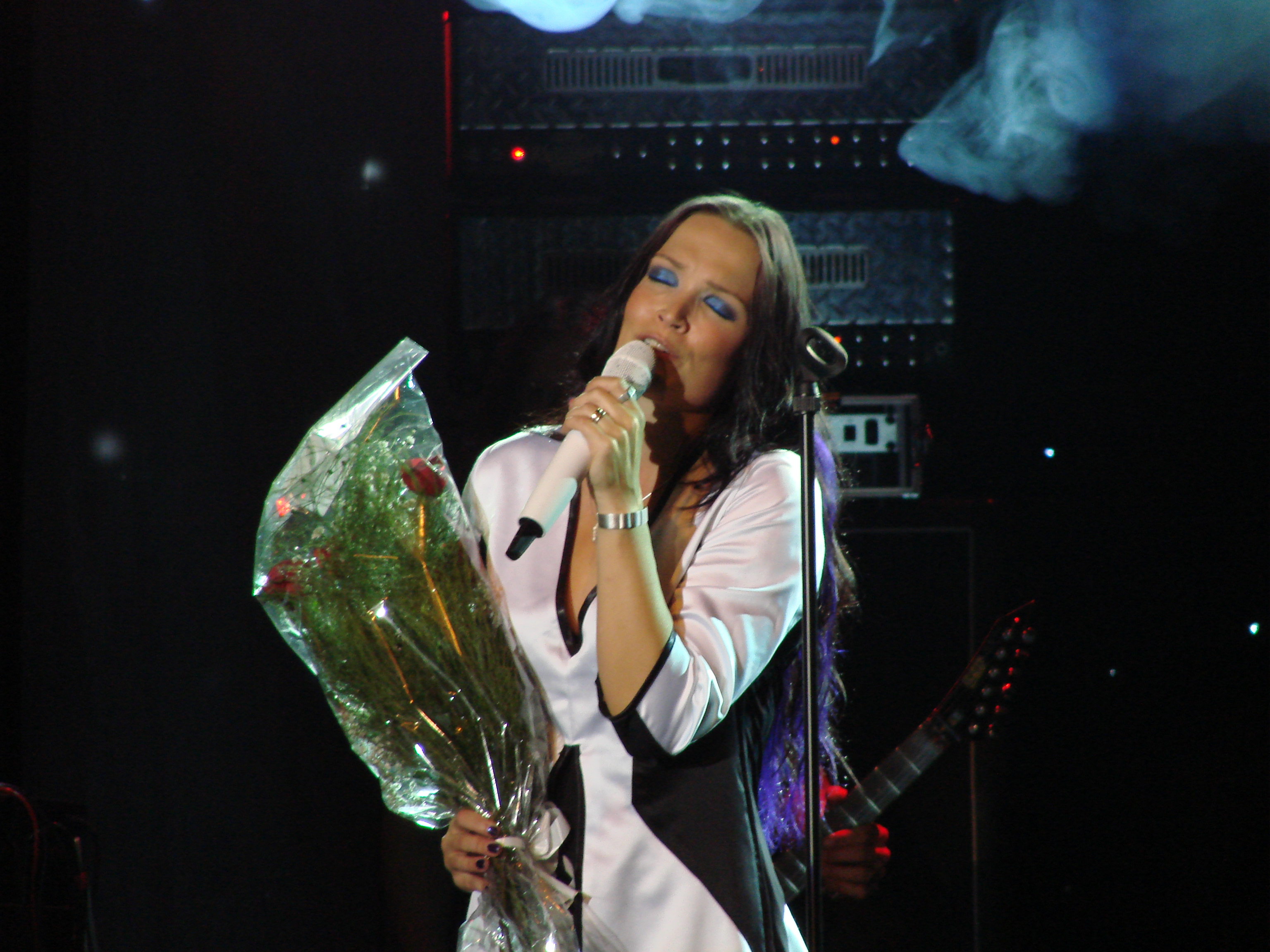 Tarja Turunen at La Trastienda, Buenos Aires, Argentina on May 26, 2009. This show was the third in Buenos Aires in her Storm Returns to the America’s tour.